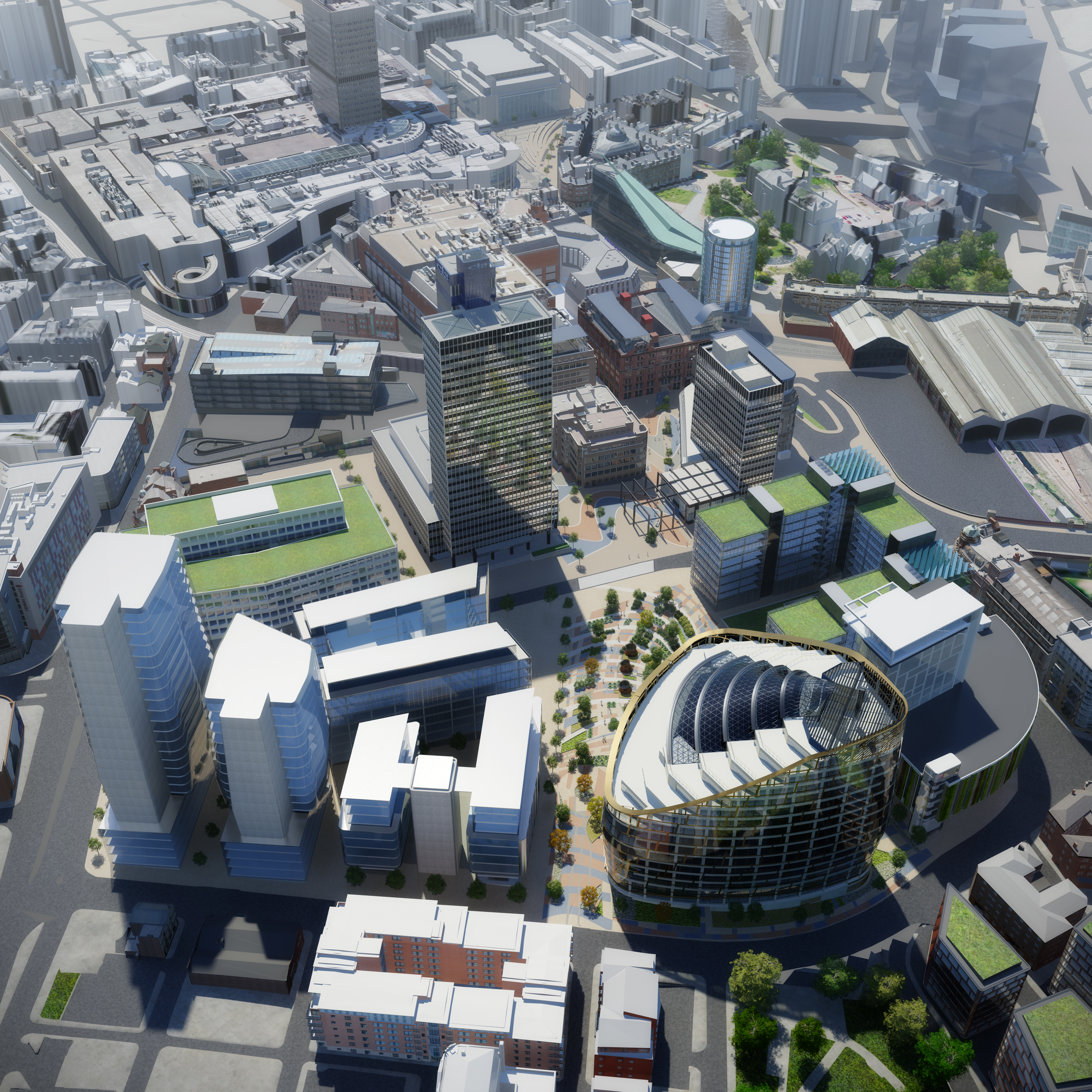 The Co-operative Group has revealed the first images of how the central Manchester NOMA development could appear upon completion in 10 - 15 years time. Winning entries from an international architecture competition have been included in the most up to date model to show how the later phases of the project could be designed. There are 8 active projects already under way as part of NOMA and these new images are the first time that these have all been shown together with preferred designs for future phases. The scheme will transform the 20-acres site around Victoria Station in to a vibrant new place to live, work and shop, as well as promising a wide range of recreational activities. NOMA will be built at a cost of £800m, the first phase of which is The Co-operative Group’s new head office, which is scheduled for completion in October 2012.